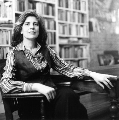 Crop of File:Susan Sontag 1979 ©Lynn Gilbert.jpg